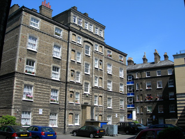 Old Pye Street Estate, St Matthew Street, SW1 This is a Peabody Estate. There are many of them in this area, and they provide affordable housing in an area where market rents would be way out of the reach of the average worker.